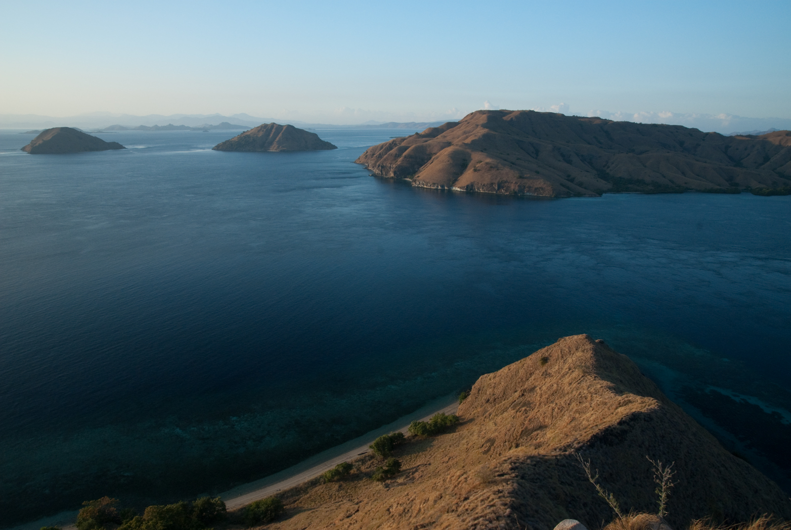 View from the top of Gili Lawa Darat's island, Komodo National Park, Indonesia